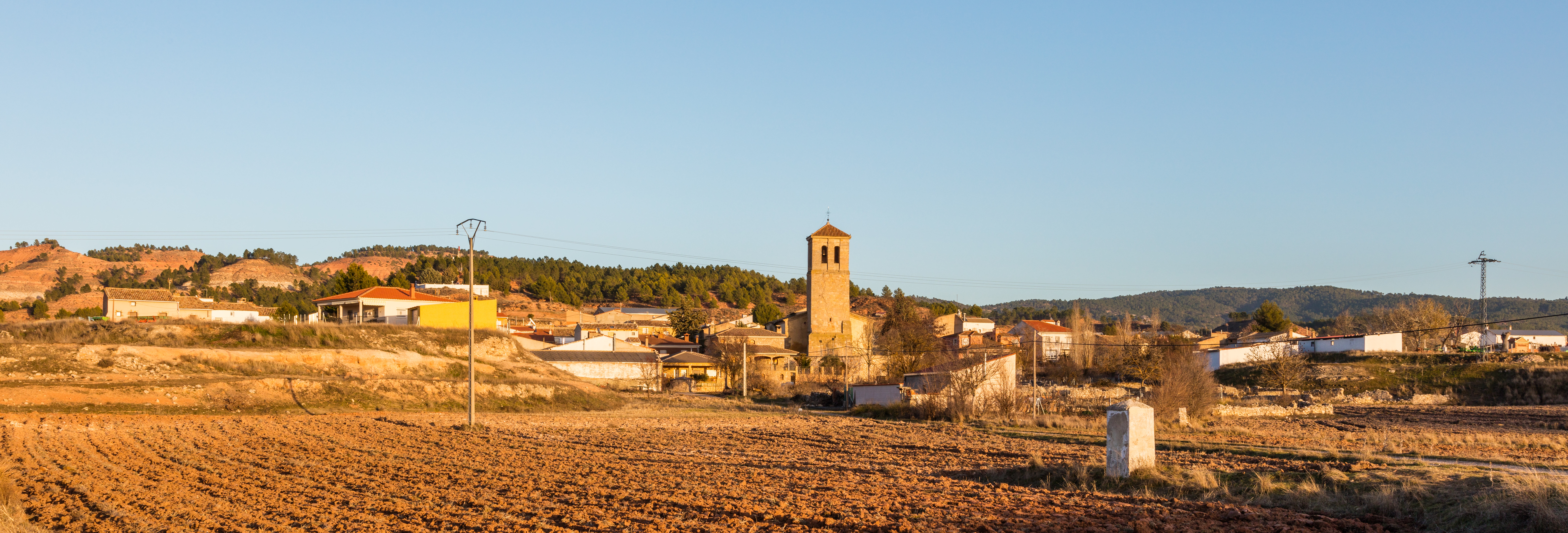 Villar de Domingo García, Cuenca, Spain